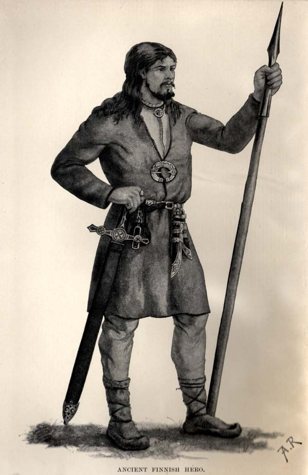 Scans of the 1888 translation of Kalevala into English. Ancient Finnish Hero. Illustration from inside front of Volume 1 of Kalevala. Translated by John Martin Crawford, published 1888.